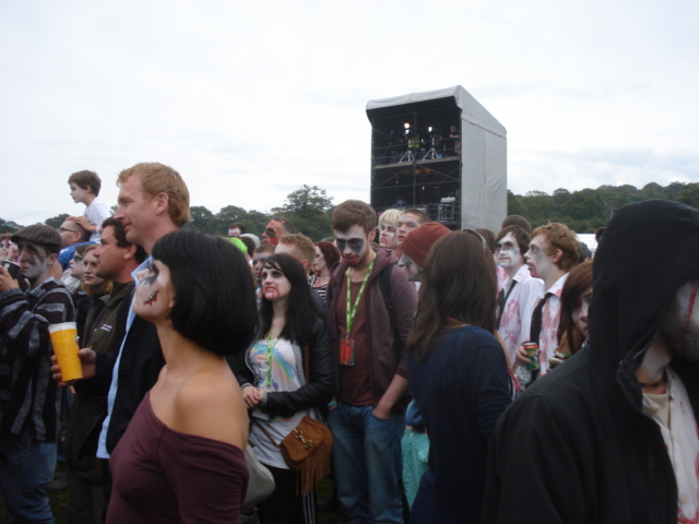 Zombies mingle with humans at The Big Chill Festival 2009 as a world record is broken and a film is made.